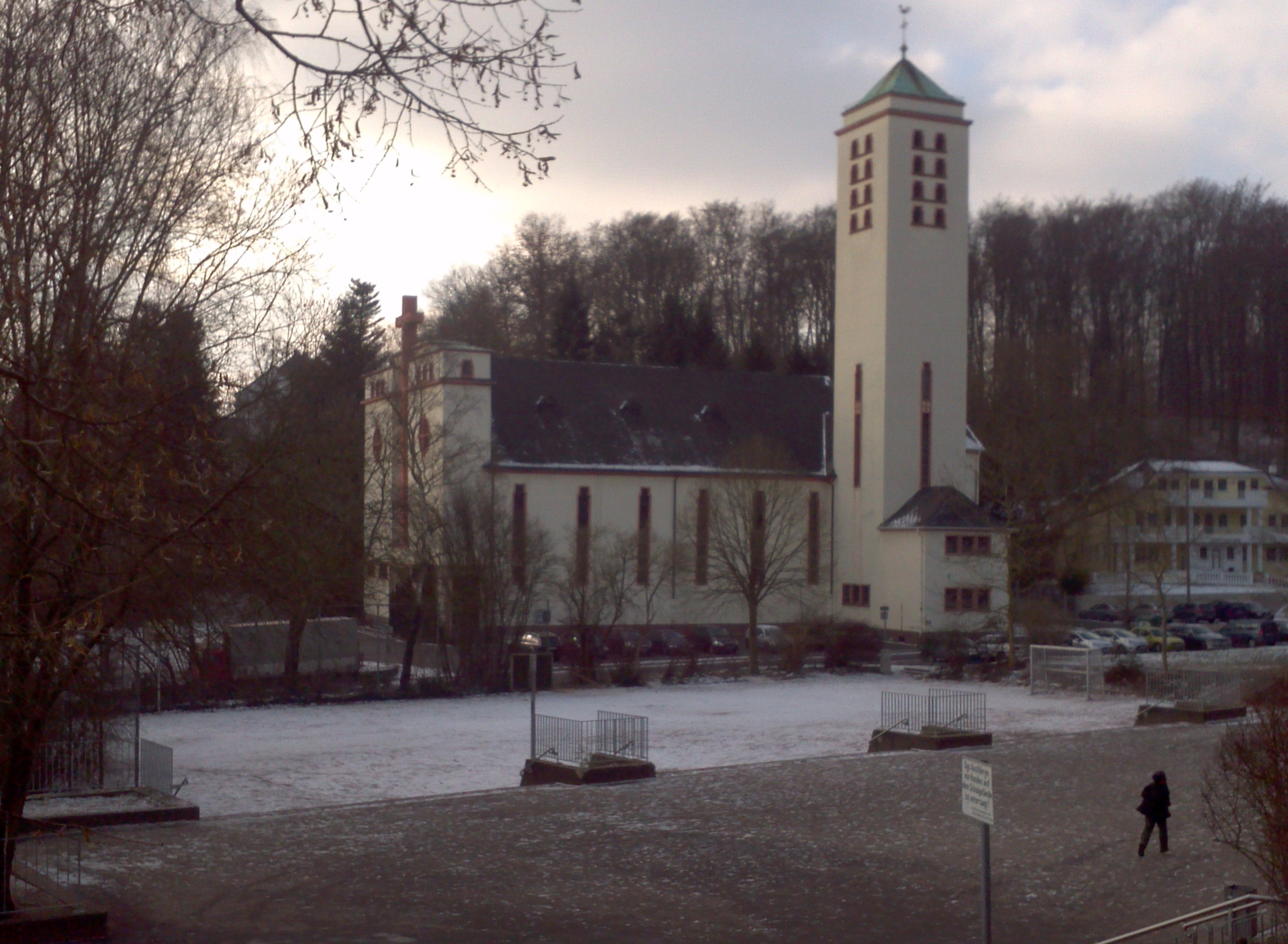 St. Marien Saarbrücken-Herrensohr